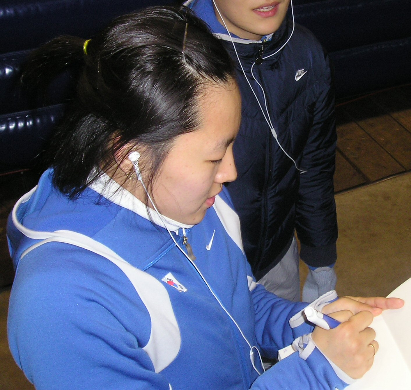 Lee Sang-Hwa (KOR) at a World Cup in Thialf (Heerenveen, The Netherlands)